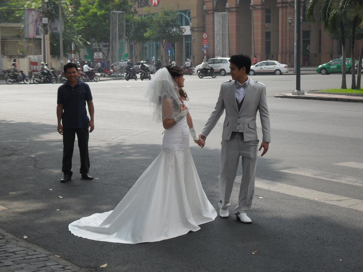 Wedding in Saigon, Vietnam